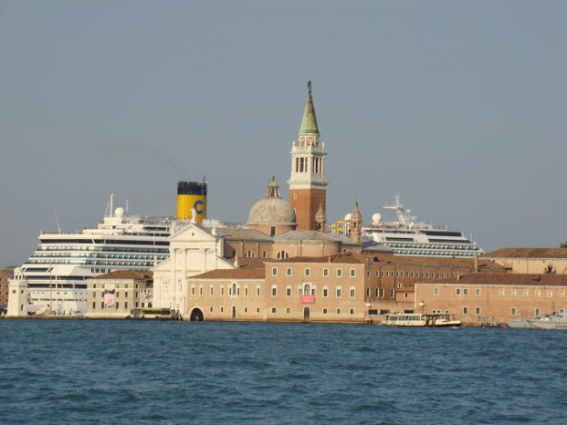 Ocean liner passing the Canale della Giudecca